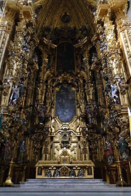 Altar of the kings